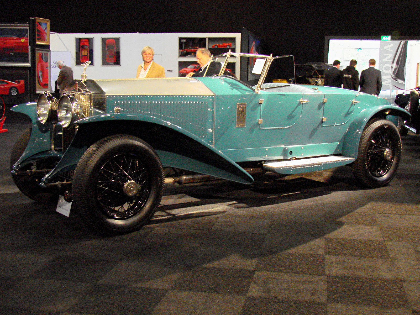 RM Automobiles of London Auction 2009